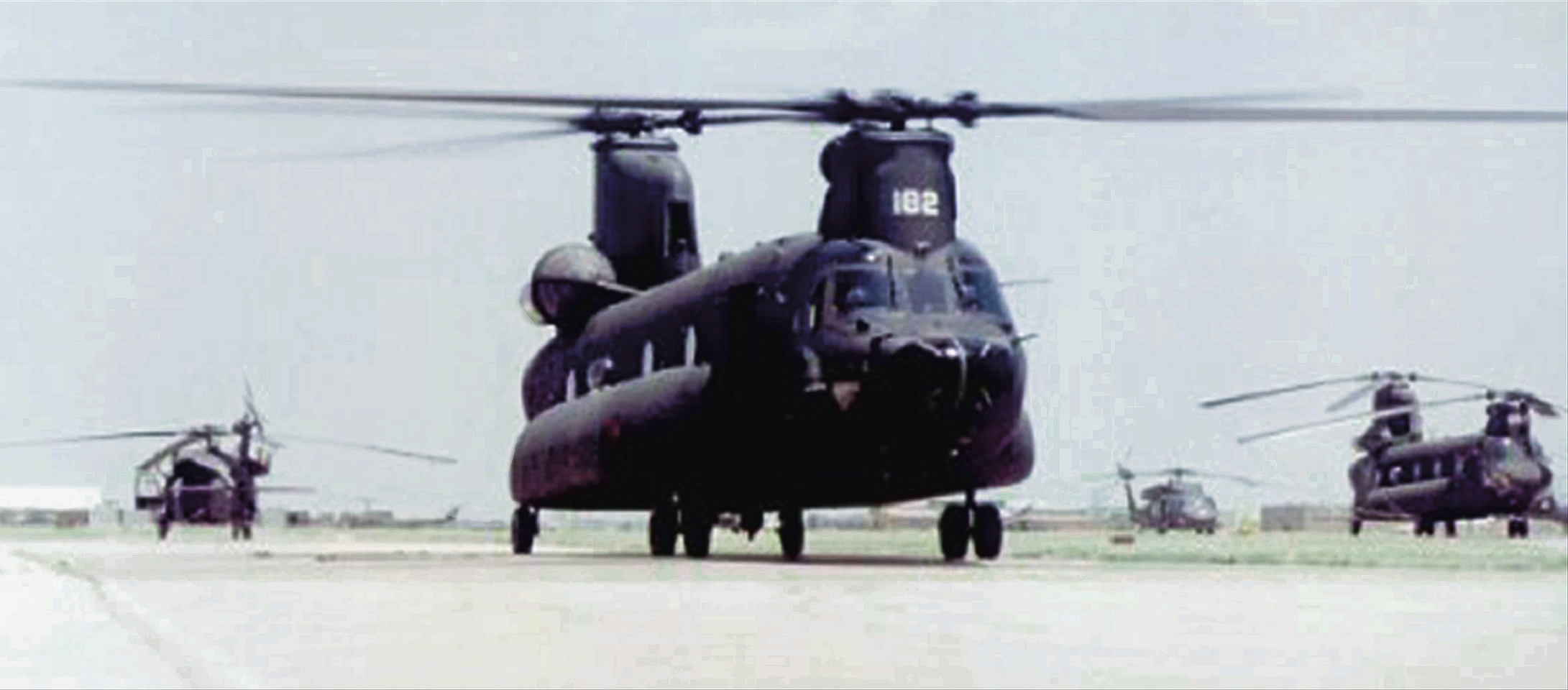 Republic of Singapore Air Force has six CH-47 Chinook helicopters at Grand Prairie, Texas for training. The Asia-Pacific Defense FORUM is a professional military journal published quarterly by the Commander of the United States Pacific Command As stated in the website, the photographs are from U.S. military sources.